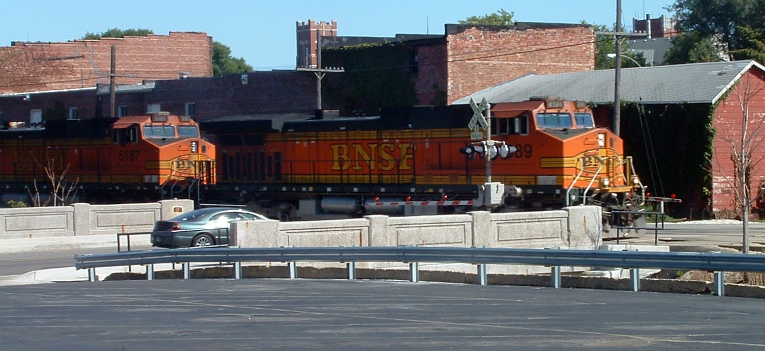 A BNSF locomotive passing through Galesburg, Illinois. At the Cherry St. crossing.